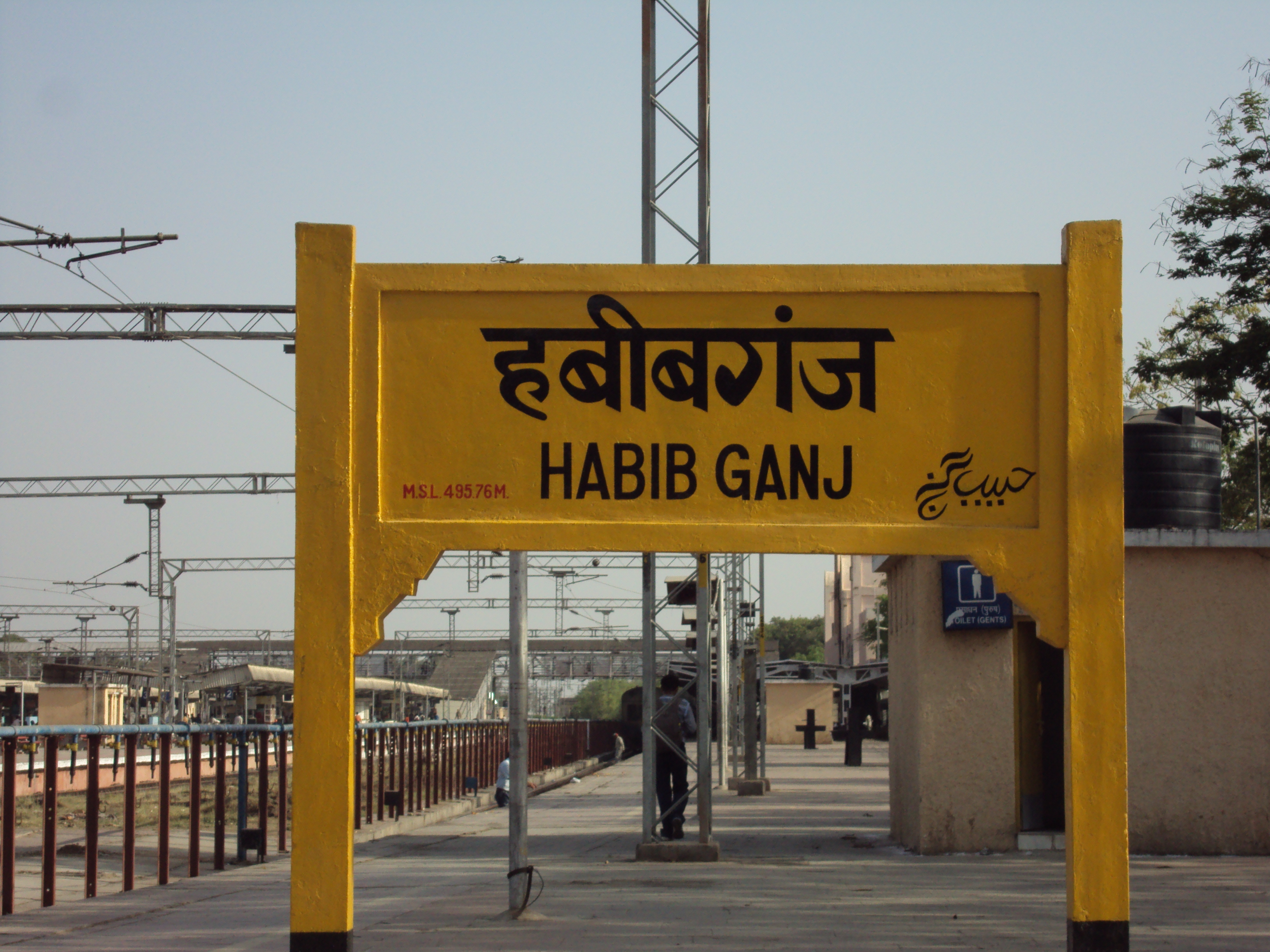 Habibganj Railway Station Signboard at the north end of platform number 1,Habibganj Railway Station,Bhopal.